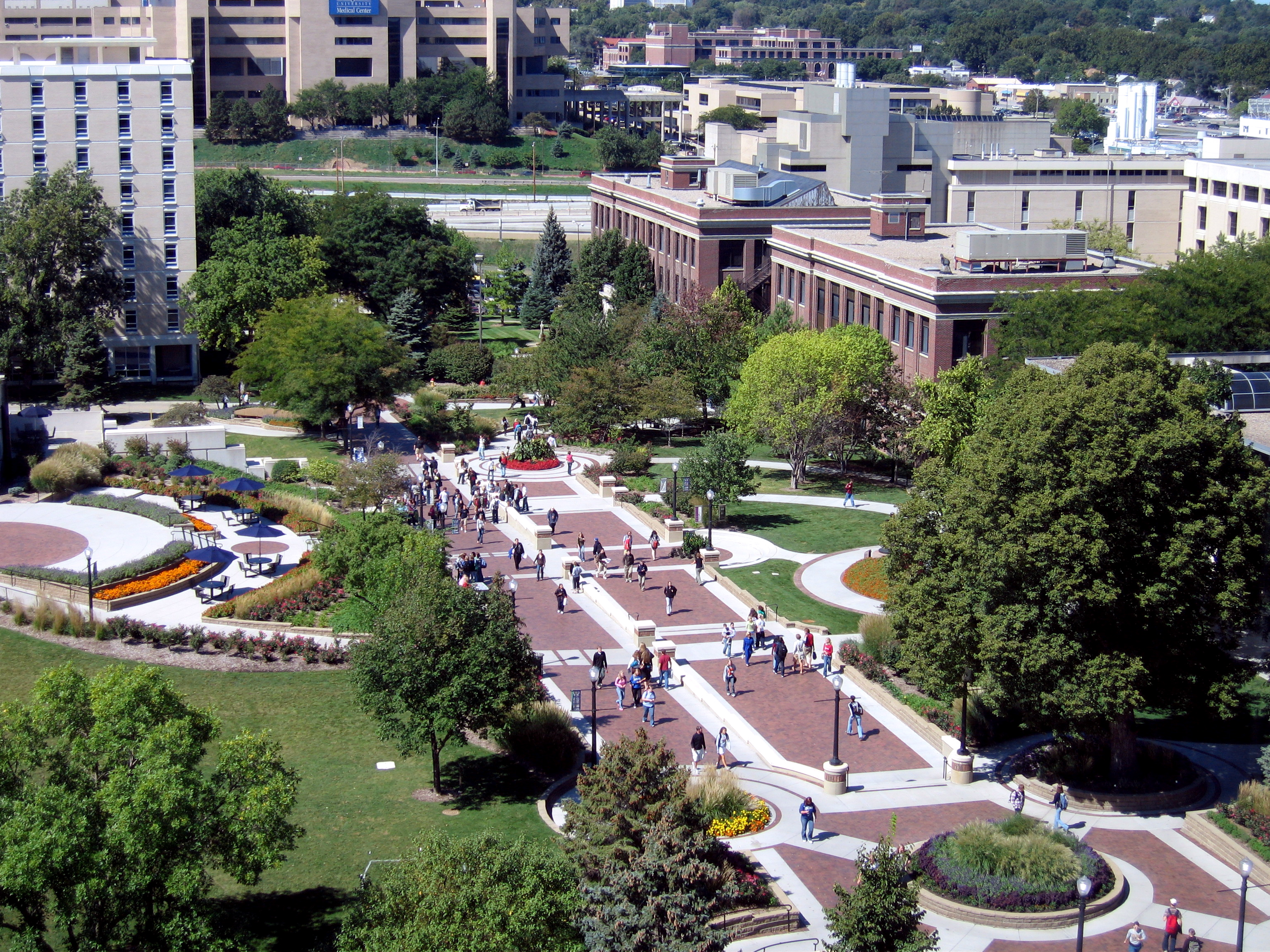 View of Creighton's west mall, taken from the Swanson Residence Hall.